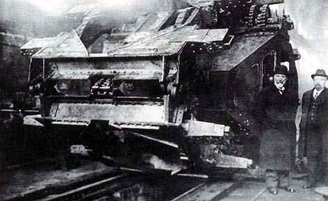 Second_Boirault_machine